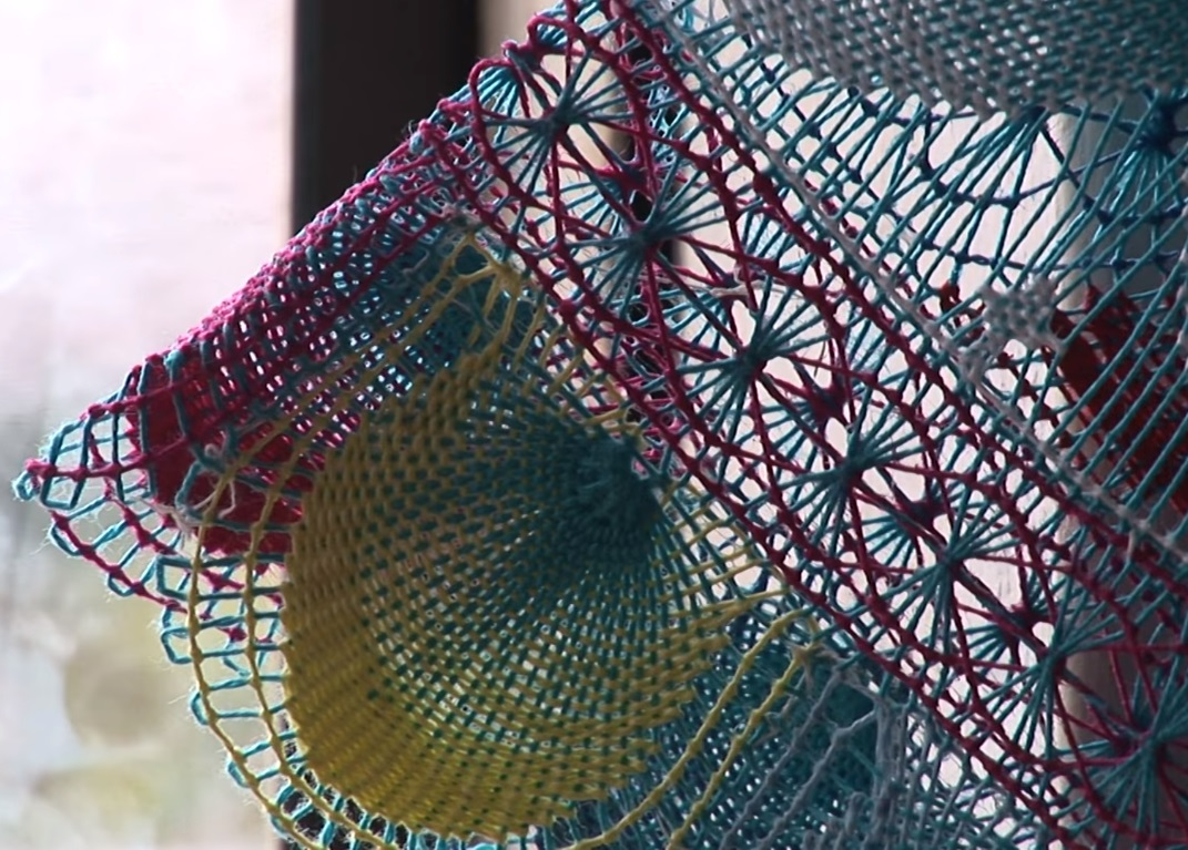 Ñandutí is a paraguayan handcrafted embroidery.